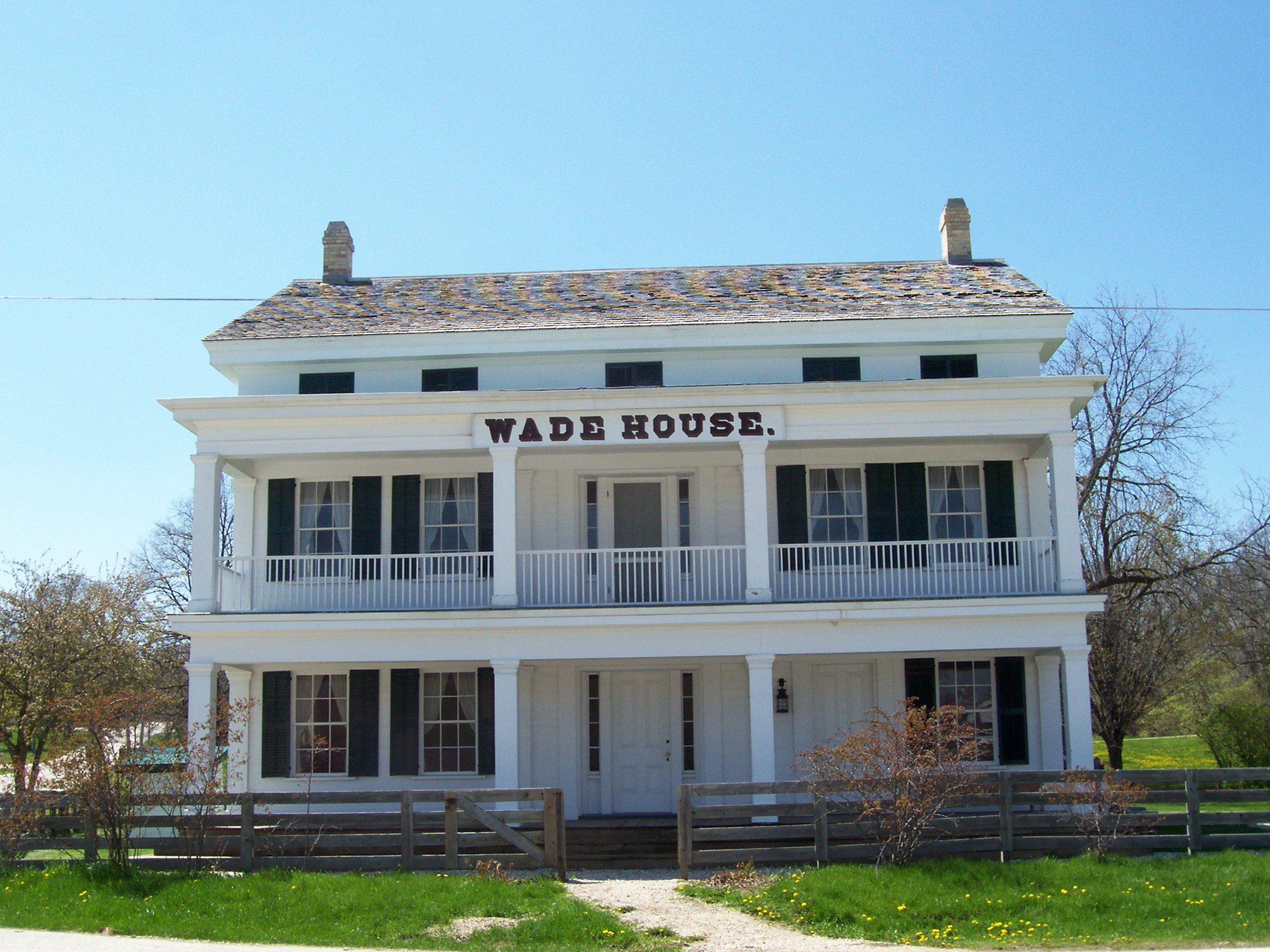 Looking west at the Wade House in Greenbush, Wisconsin, USA. Located on the Kettle Moraine Scenic Drive.